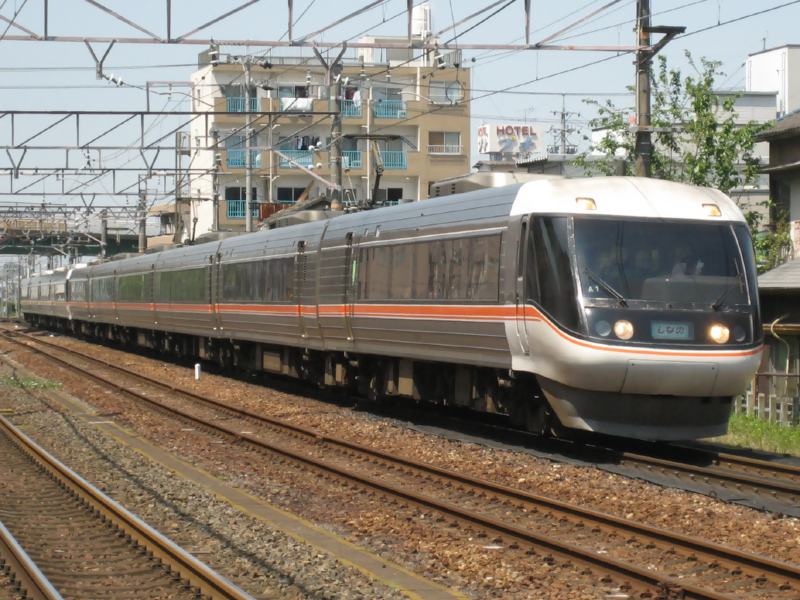 JR Central 383 series EMU on a "Wide View Shinano" service, in Kasugai, Aichi